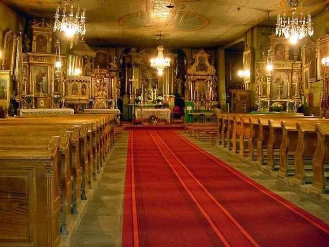 Church in Cięcina